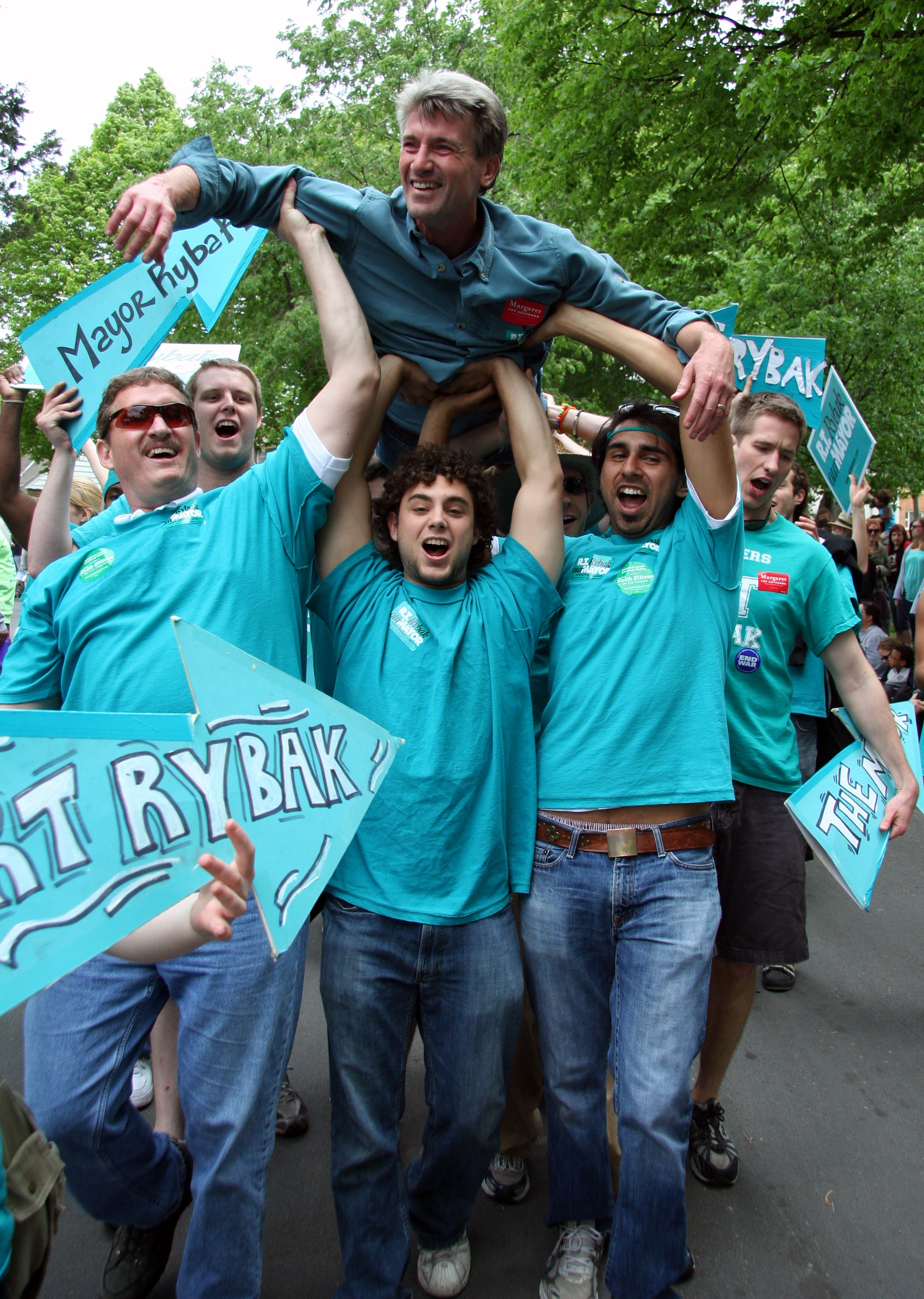 Mayor R. T. Rybak being carried by supporters at the end of a May Day parade into Powderhorn Park in Minneapolis, Minnesota